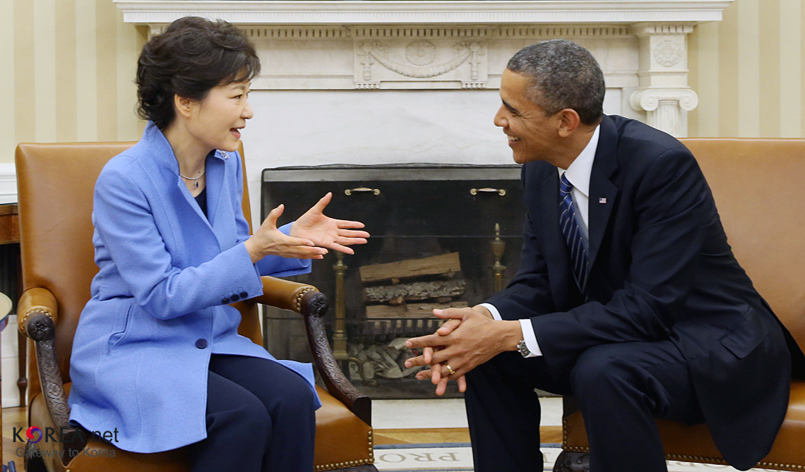 Korea-U.S. summit President Park Geun-hye (left) and U.S. President Barack Obama have in-depth discussion during summit talks on May 7 (local time in Washington D.C.) at the White House 2013.05.07.(U.S. Eastern Time) Cheong Wa Dae -Related Article- "Korea-U.S. alliance opens a new era of hope" 한-미 정상회담 박근혜 대통령이 7일 백악관을 방문해 버락 오바마 미국 대통령과 정상회담을 갖고 있다. 청와대